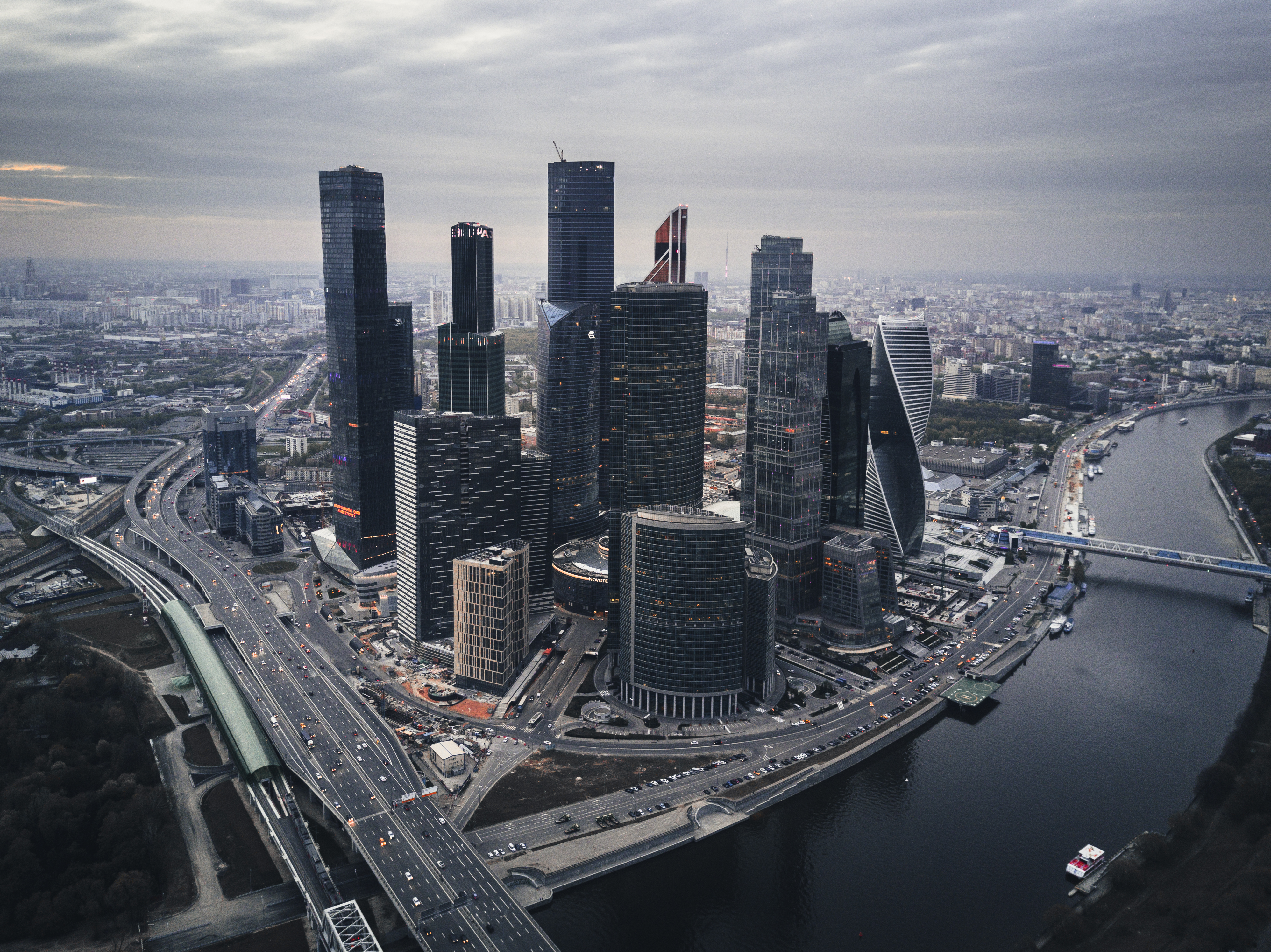 Москва, Россия